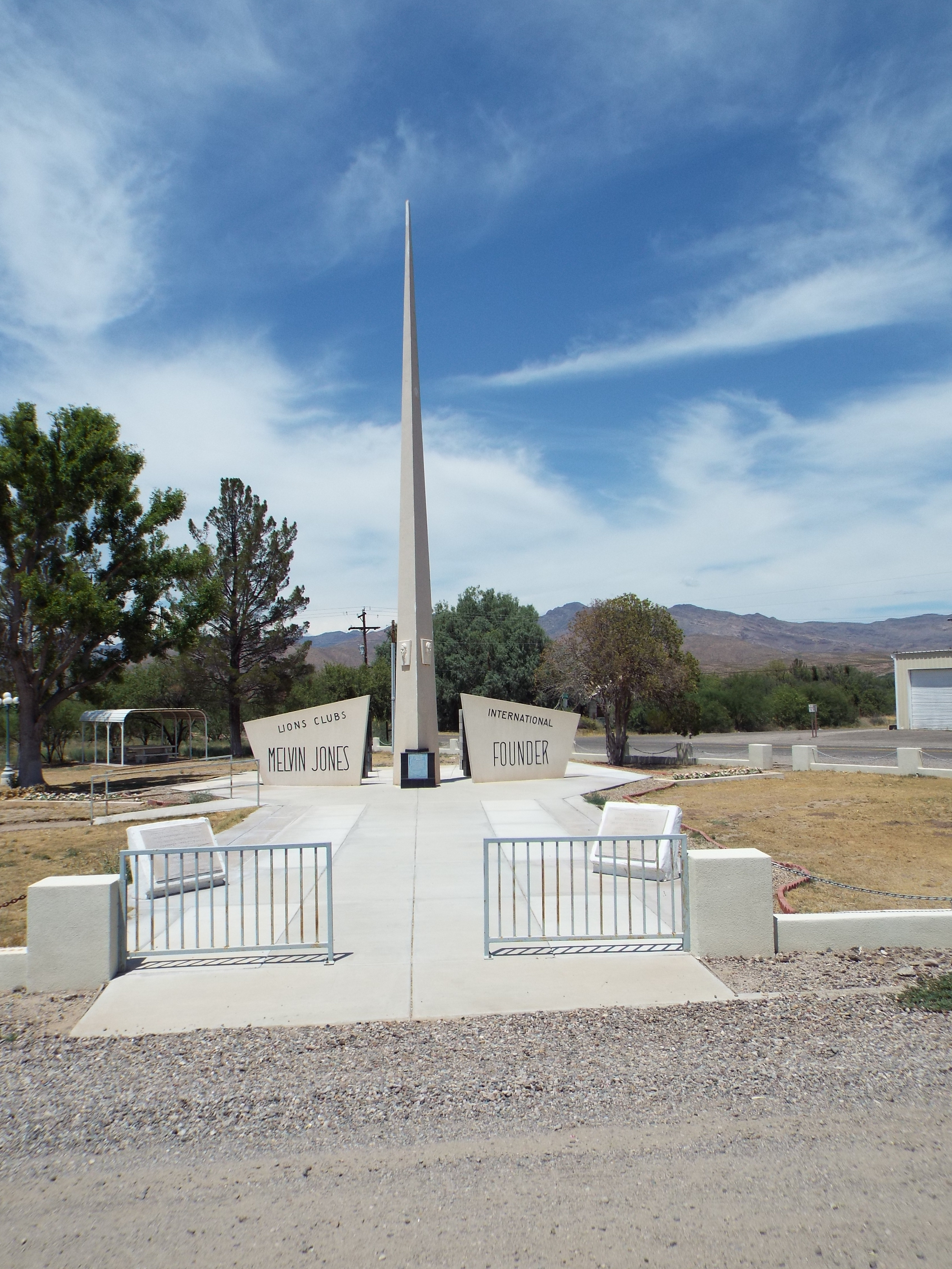 Monument in Fort Thomas, Arizona dedicated to Melvin Jones founder of Lions Clubs International.